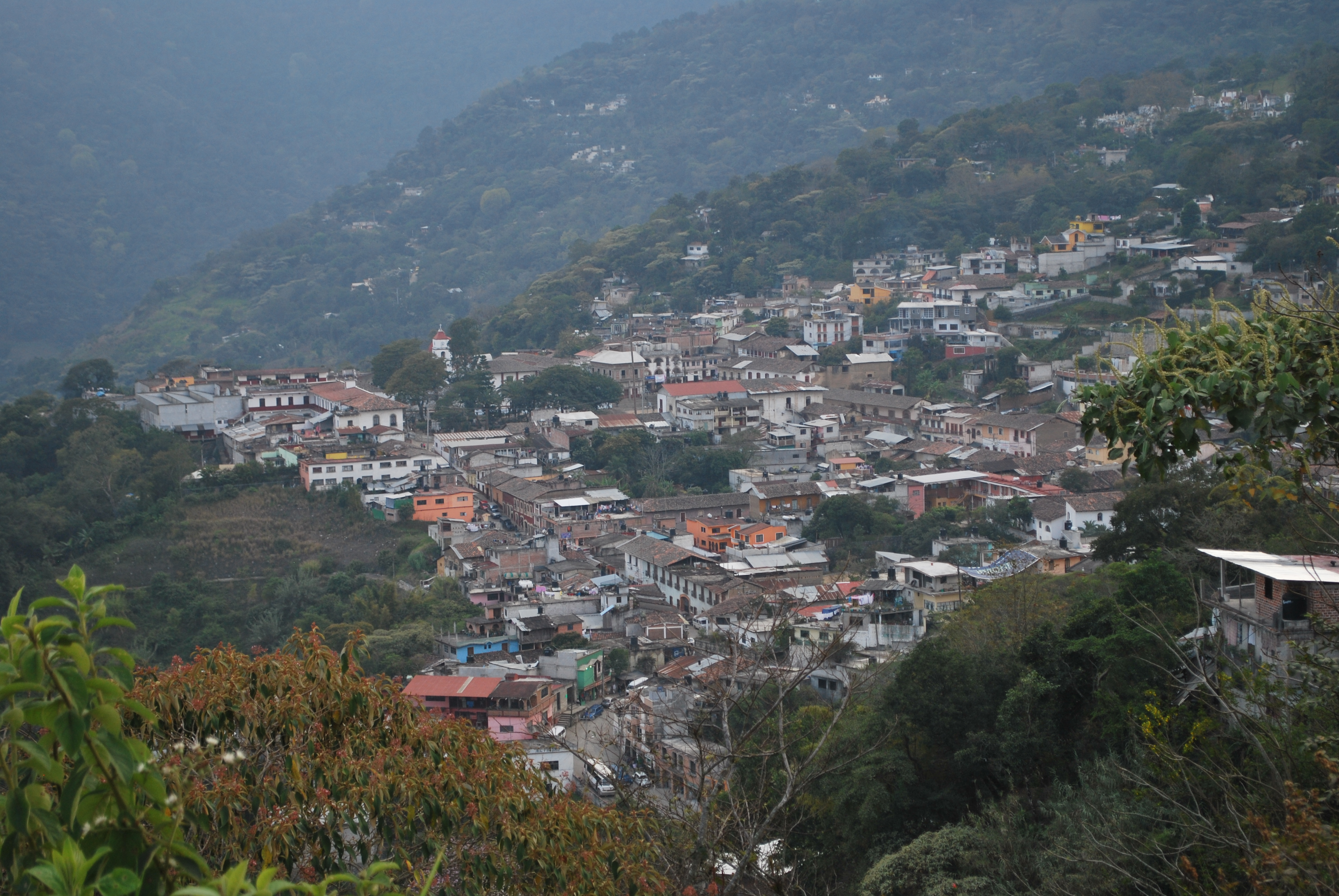 Panoramic view of Pahuatlan, Puebla, Mexico